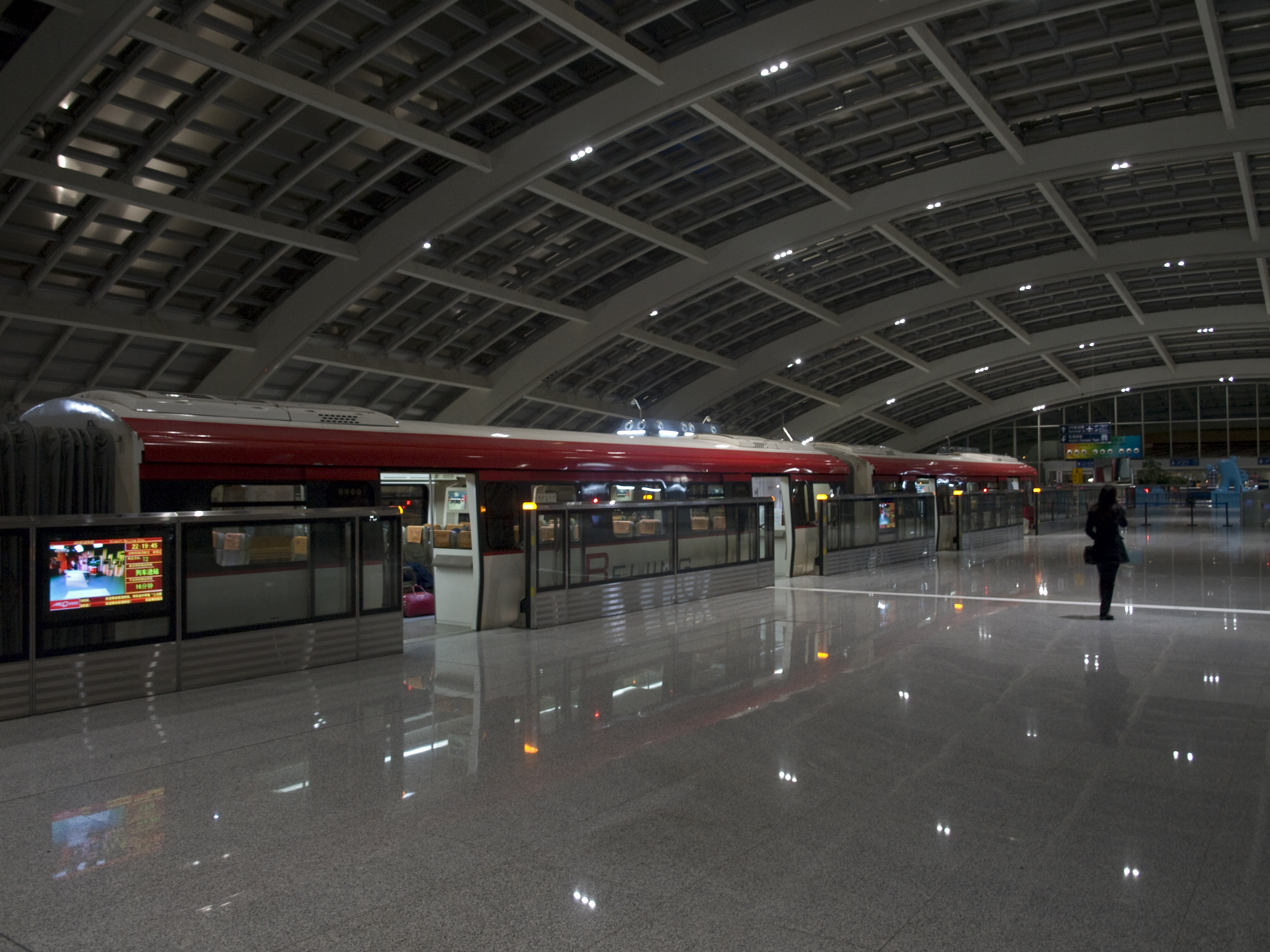 Terminal 3 station, Beijing Subway